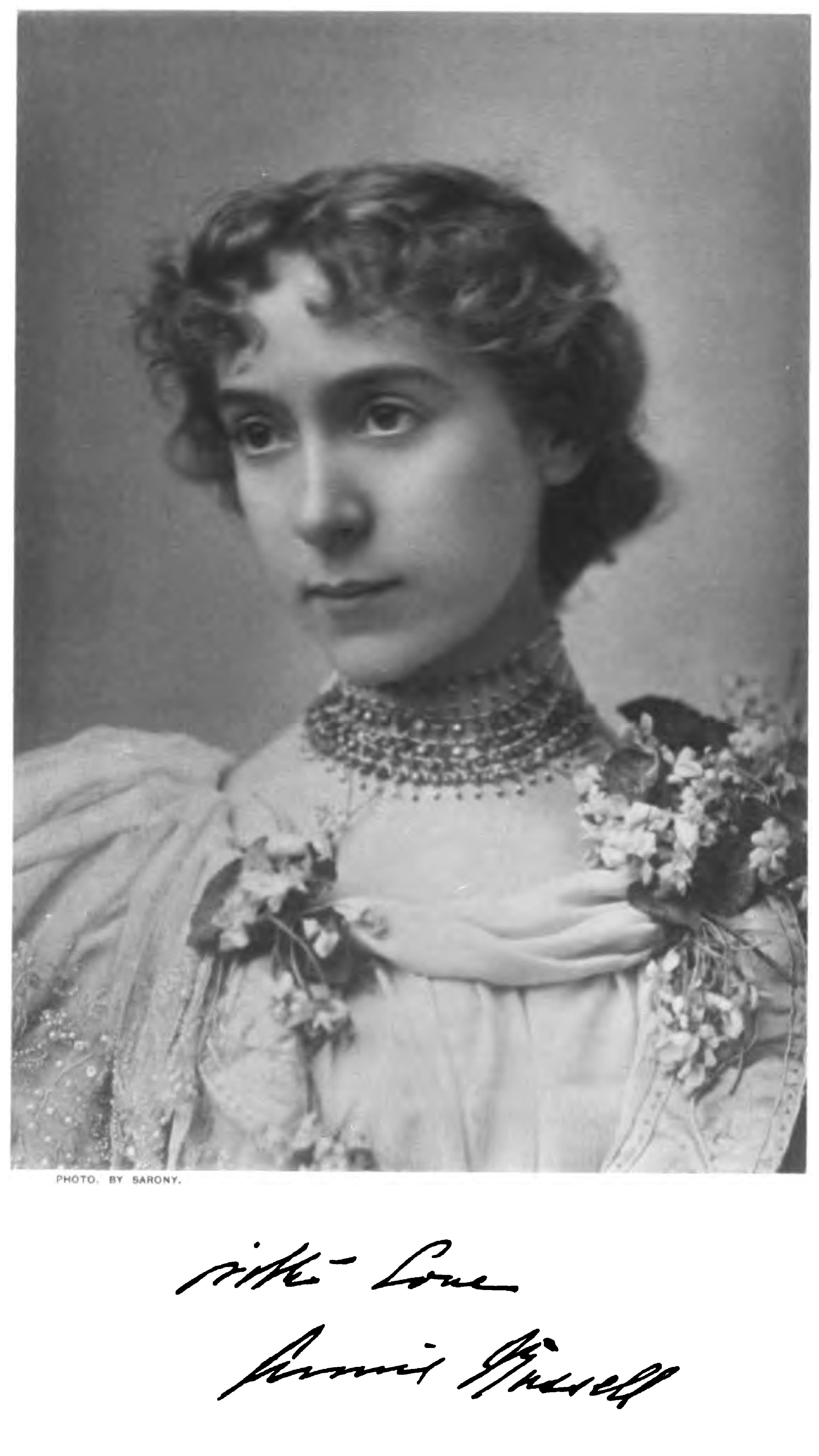 Annie Ellen Russell (January 12, 1864 – January 16, 1936) was an English born American stage actress.